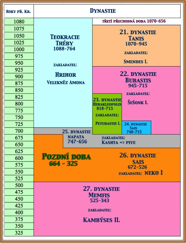 The history of this period is confusing and derives from scattered artifacts and is still the subject of numerous debates.